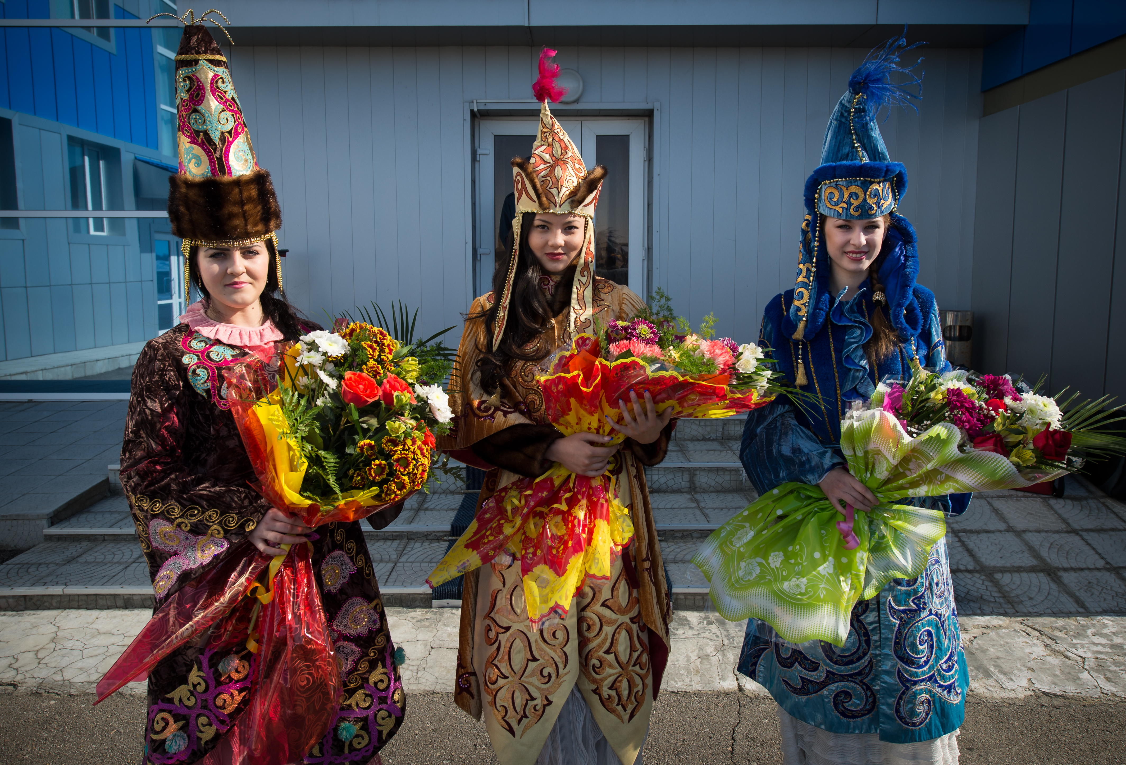 Women in ceremonial Kazakh dress prepare to welcome home Expedition 34 Russian Flight Engineer Evgeny Tarelkin, Flight Commander Kevin Ford of NASA, and Russian Soyuz Commander Oleg Novitskiy at the Kustanay Airport a few hours after they landed near the town of Arkalyk, Kazakhstan March 16, 2013. Tarelkin, Ford and Novitskiy, returned from 142 days onboard the International Space Station where they served as members of the Expedition 33 and 34 crews.